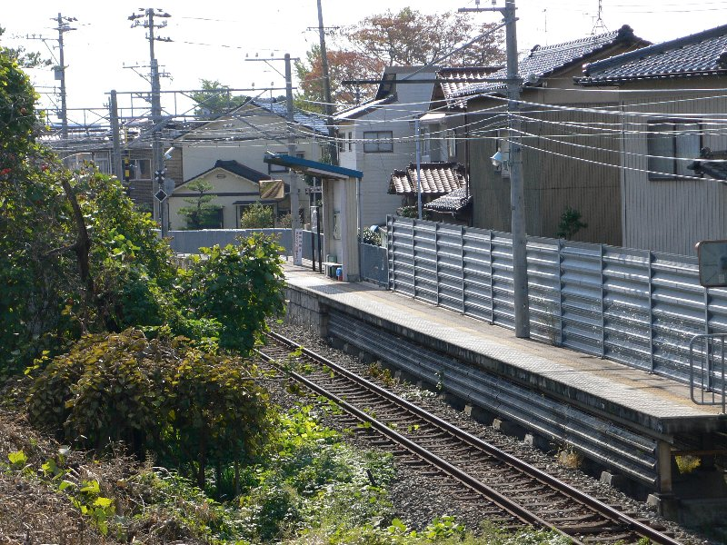 Isobe St., Hokuriku Railroad, Ishikawa, Japan.